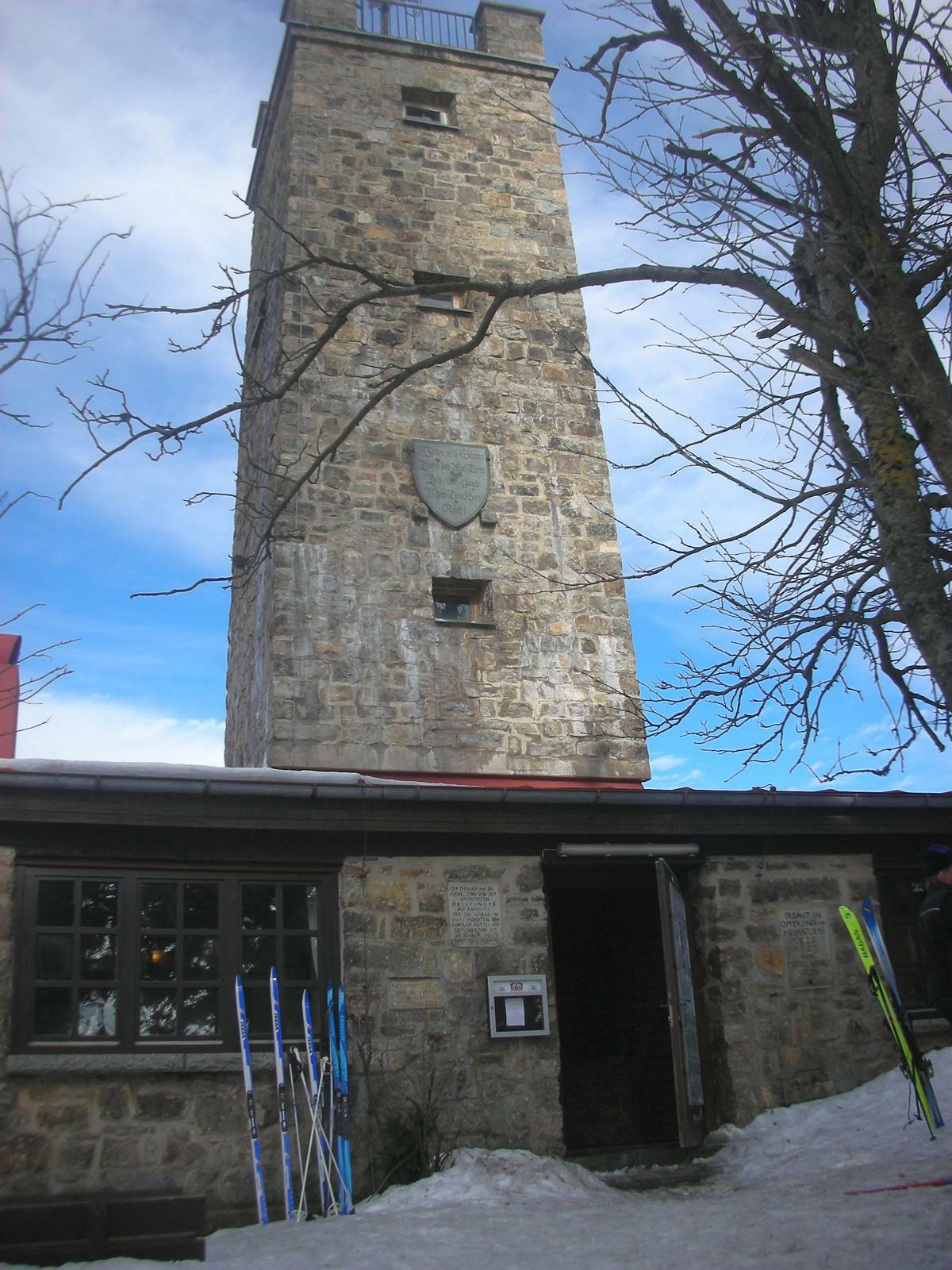 The Asenturm observation tower on the Ochsenkopf in the Fichtelgebirge mountains of Bavaria, Germany